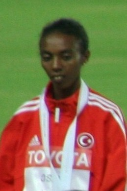 World Athletics Championships 2007 in Osaka - Victory Ceremony for the Women's 10000 Metres - Elvan Abeylegesse